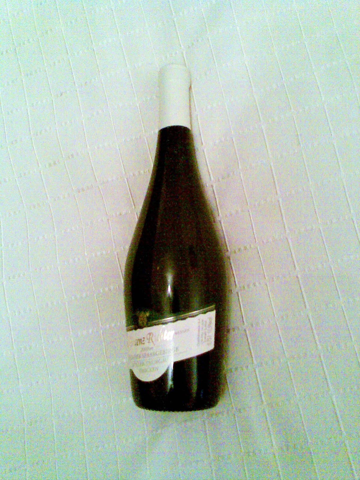 The form of bottles Wine from Saxony – “Sachsenkeule”